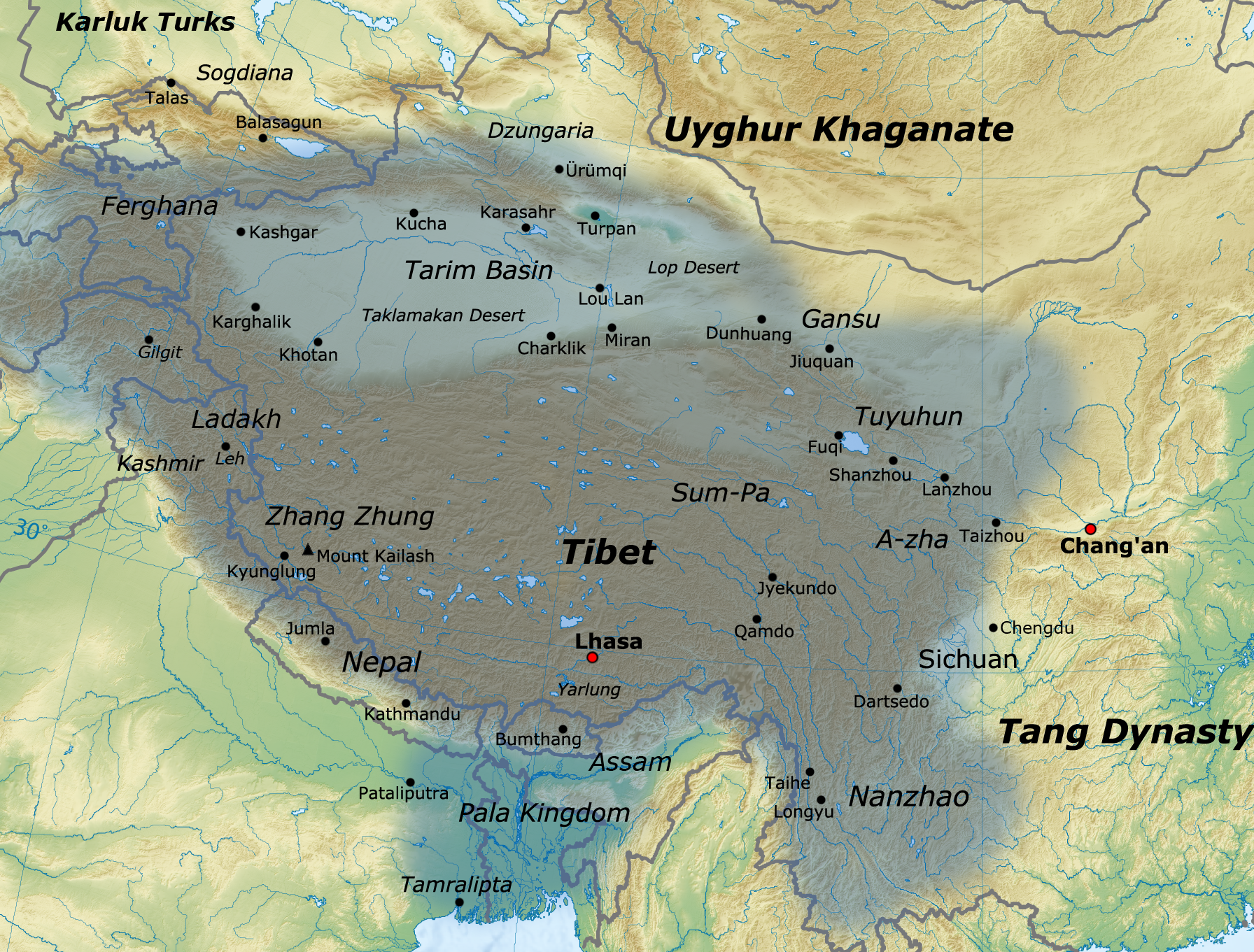 Map of the Tibetan Empire at its greatest extent between the 780s and the 790s CE sources: ibet.pdf The Silk Road: trade, travel, war and faith By Susan Whitfield, British Library